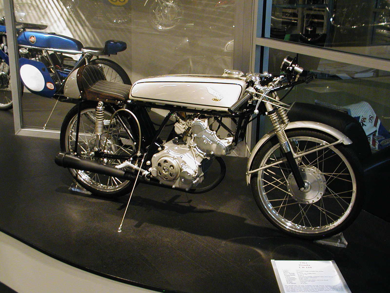 Barber Motorcycle Museum - Oct 22 2006 (162) 1962 Honda CR110More Description is here